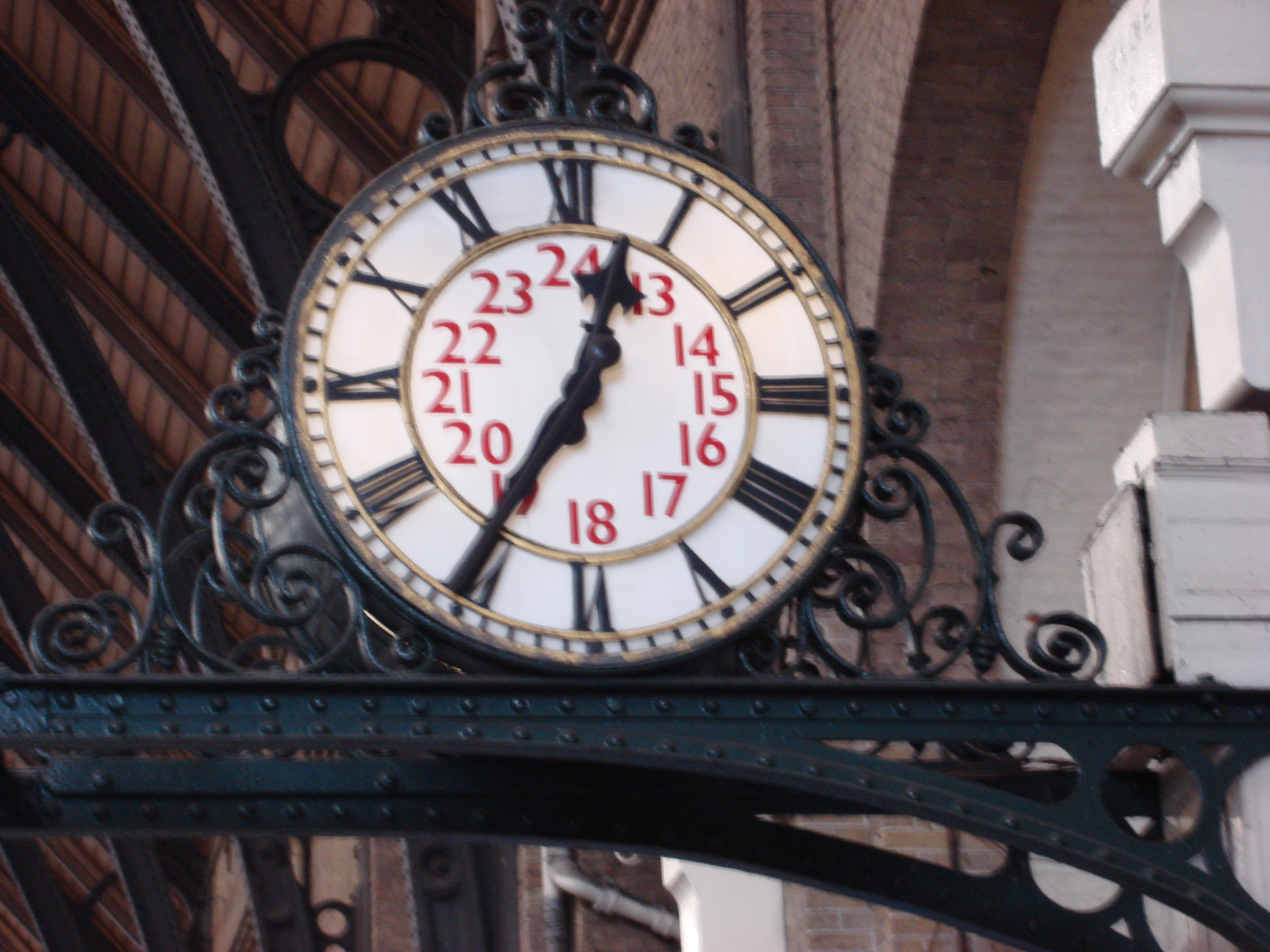 Clock in Kings Cross railway station